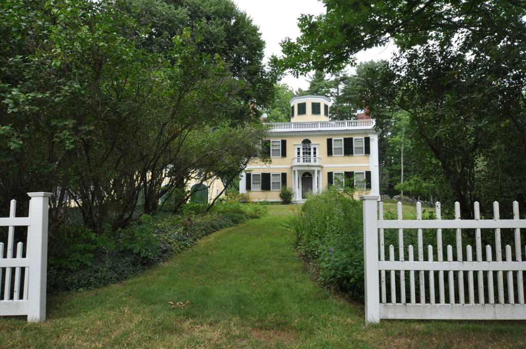 Gov. Edward Kavanaugh House, Damariscotta Falls, Newcastle, Maine.